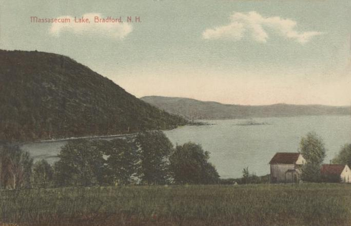 View of Lake Massasecum, Bradford, New Hampshire